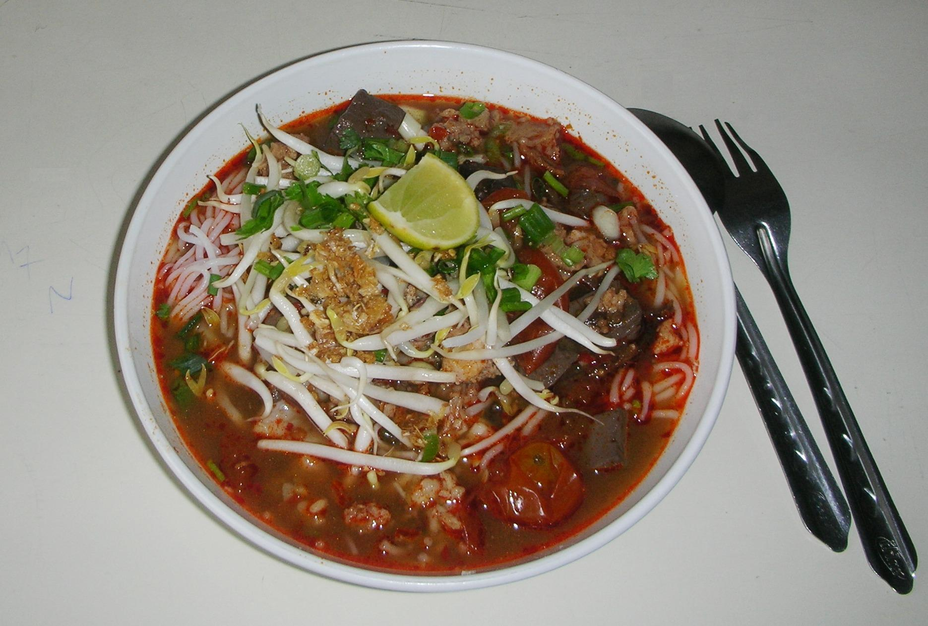 Nam ngiao at the Chiang Rai Witthayakhom School cafeteria